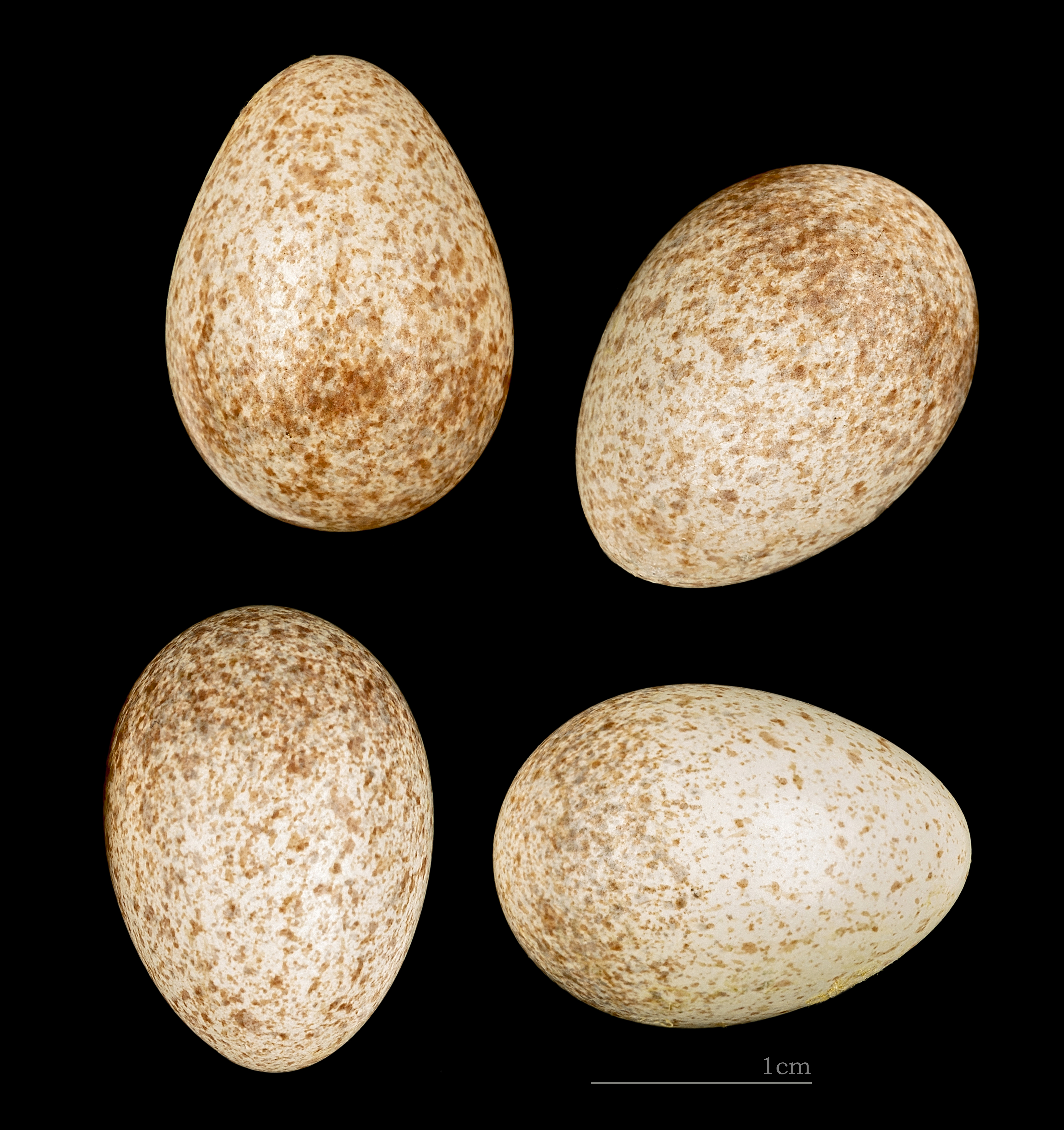 Egg of Desert Lark Collection of Henri Heim de Balsac /Jacques Perrin de Brichambaut.